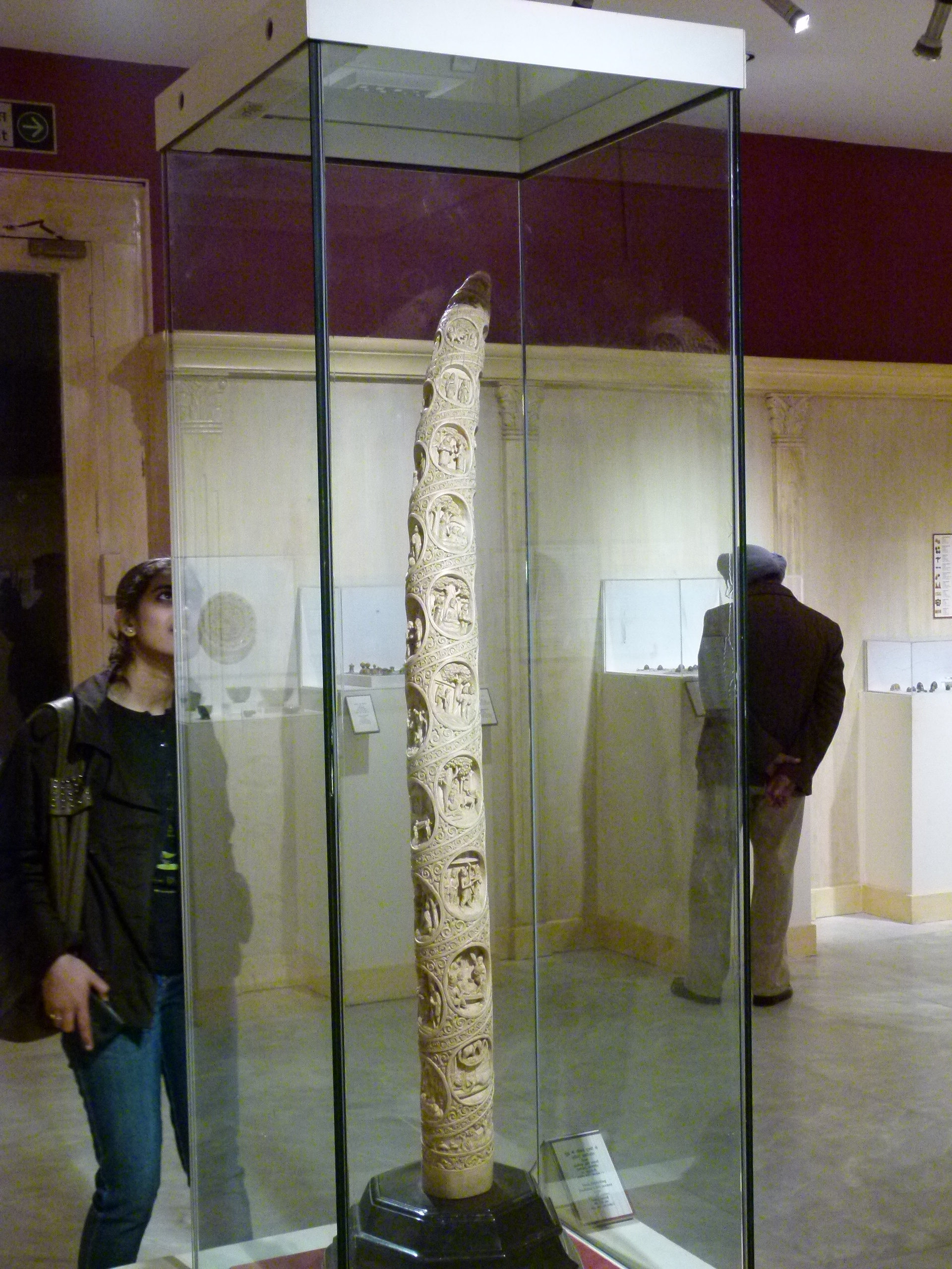 Carved elephant tusk depicting scenes from Buddha's life. Late 19th to early 20th century Delhi area. Accession number 85.508/1